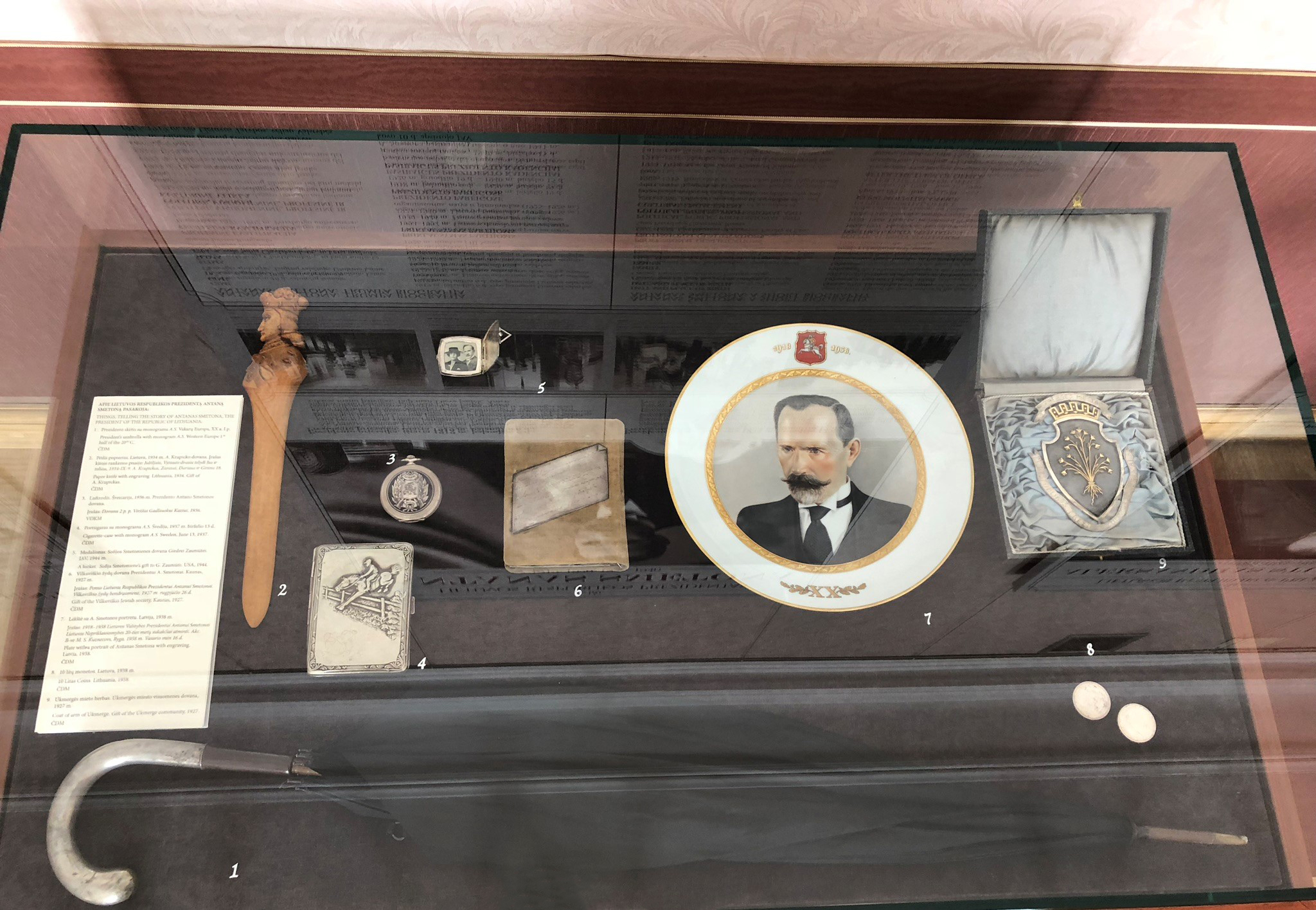 Exhibits in the Presidential Palace in Kaunas (second floor).